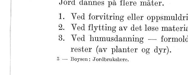 Signature on book section